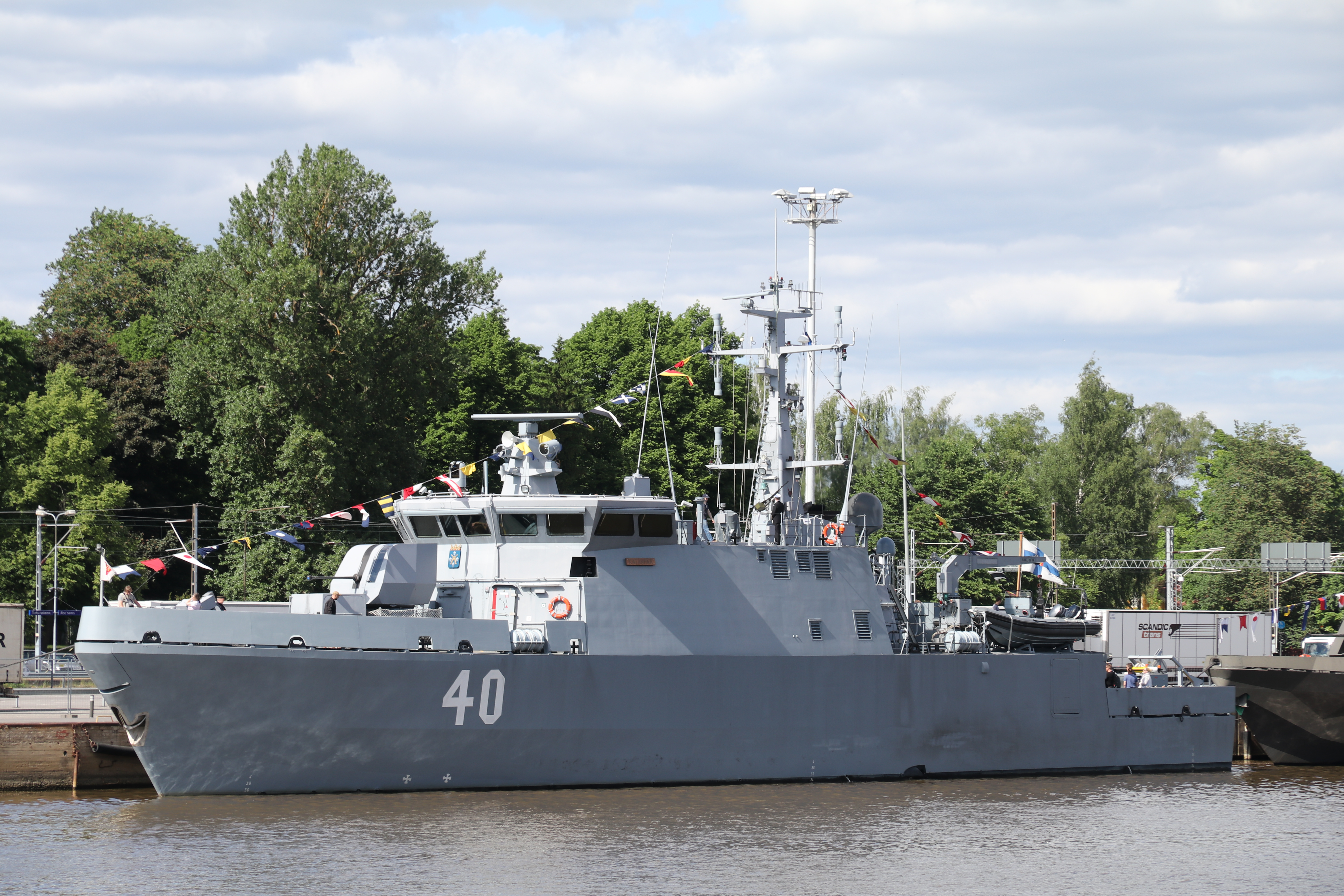 Finnish navy mine countermeasure vessel Katanpää (40). Photographed in 2016 Finnish defence forces flag day equipment exhibition in Turku Forum Marinum.